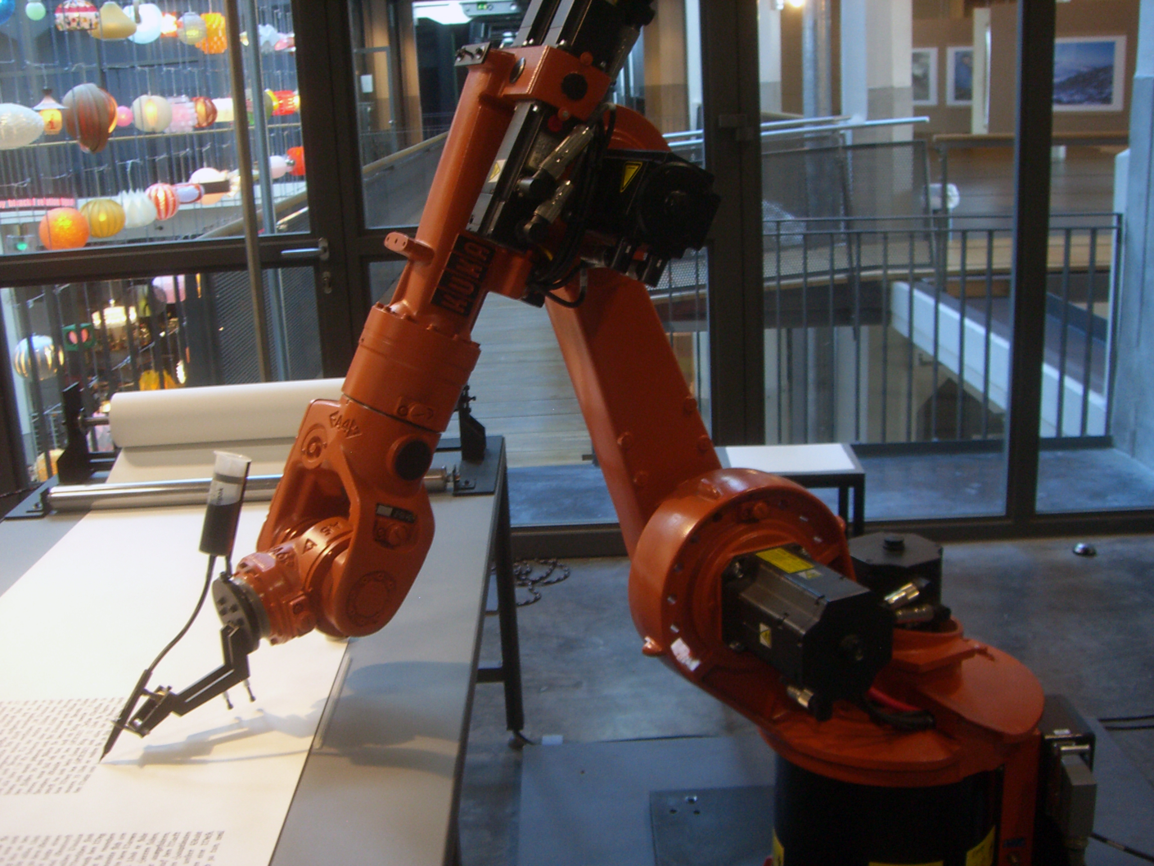 An industrial robot, which writes down the bible on rolls of paper. The machine draws the calligraphic lines with high precision. Like a monk in the scriptorium it creates step by step the text.